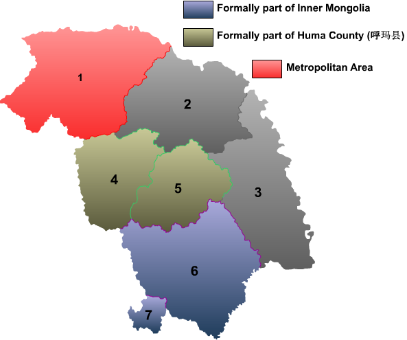 Map of Da Xinggan Ling Prefecture — in Heilongjiang Province.